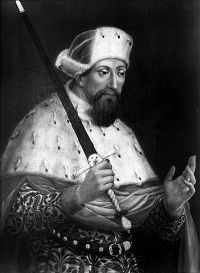 Portrait of Ludwig III. (Pfalz) a.k.a Louis III.